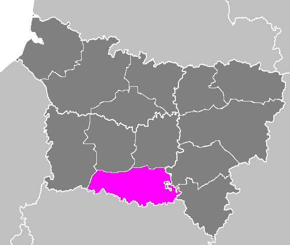 Maps of arrondissements and cantons of France: Arrondissement de Senlis.PNG